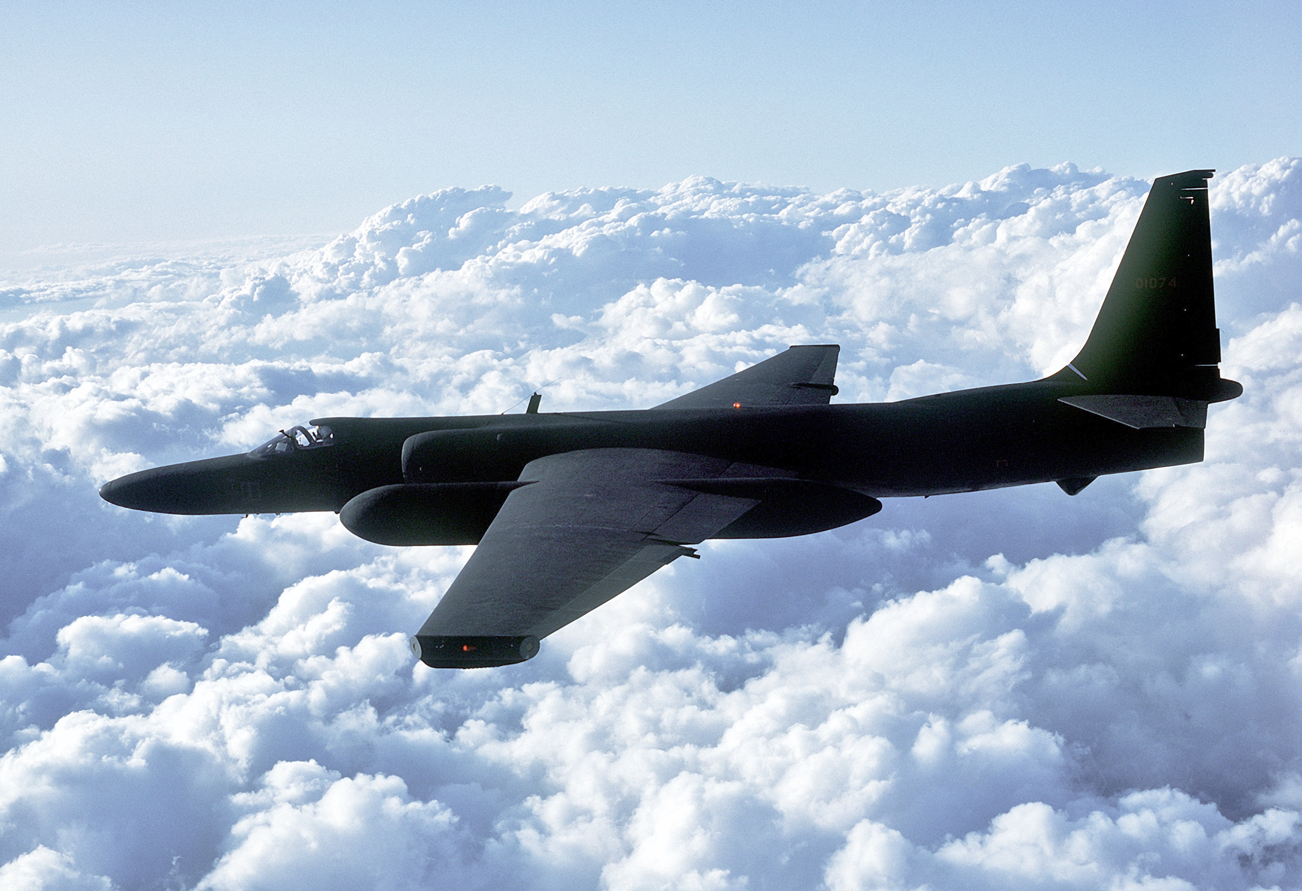 An air-to-air left side view of a TR-1 tactical reconnaissance aircraft.